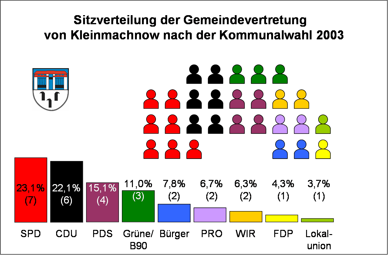 local elections Kleinmachnow Germany 2003 / Kommunalwahl Kleinmachnow 2003